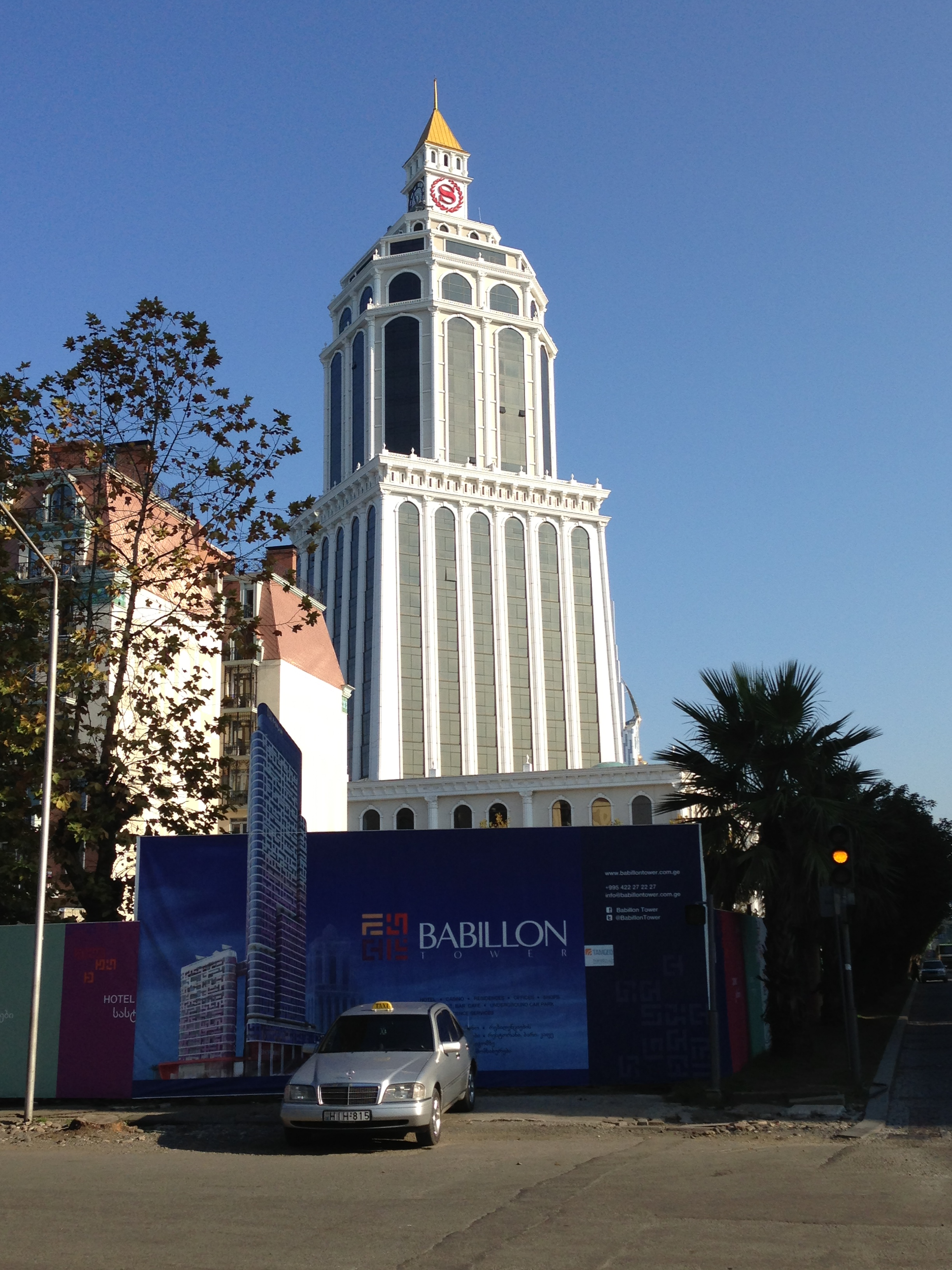 Sheraton Batumi